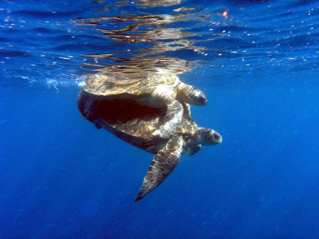 Mating turtles (Mohéli, Comoros)